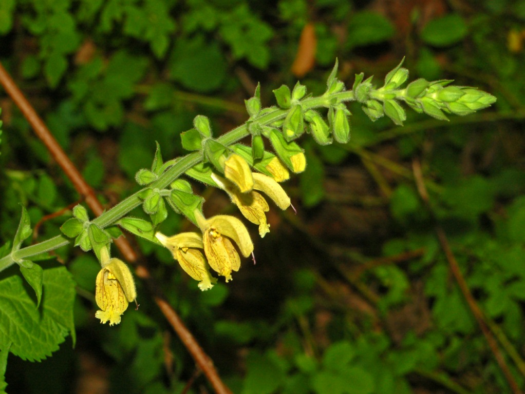 Salvia glutinosa - Val Noci, Genova, Italy